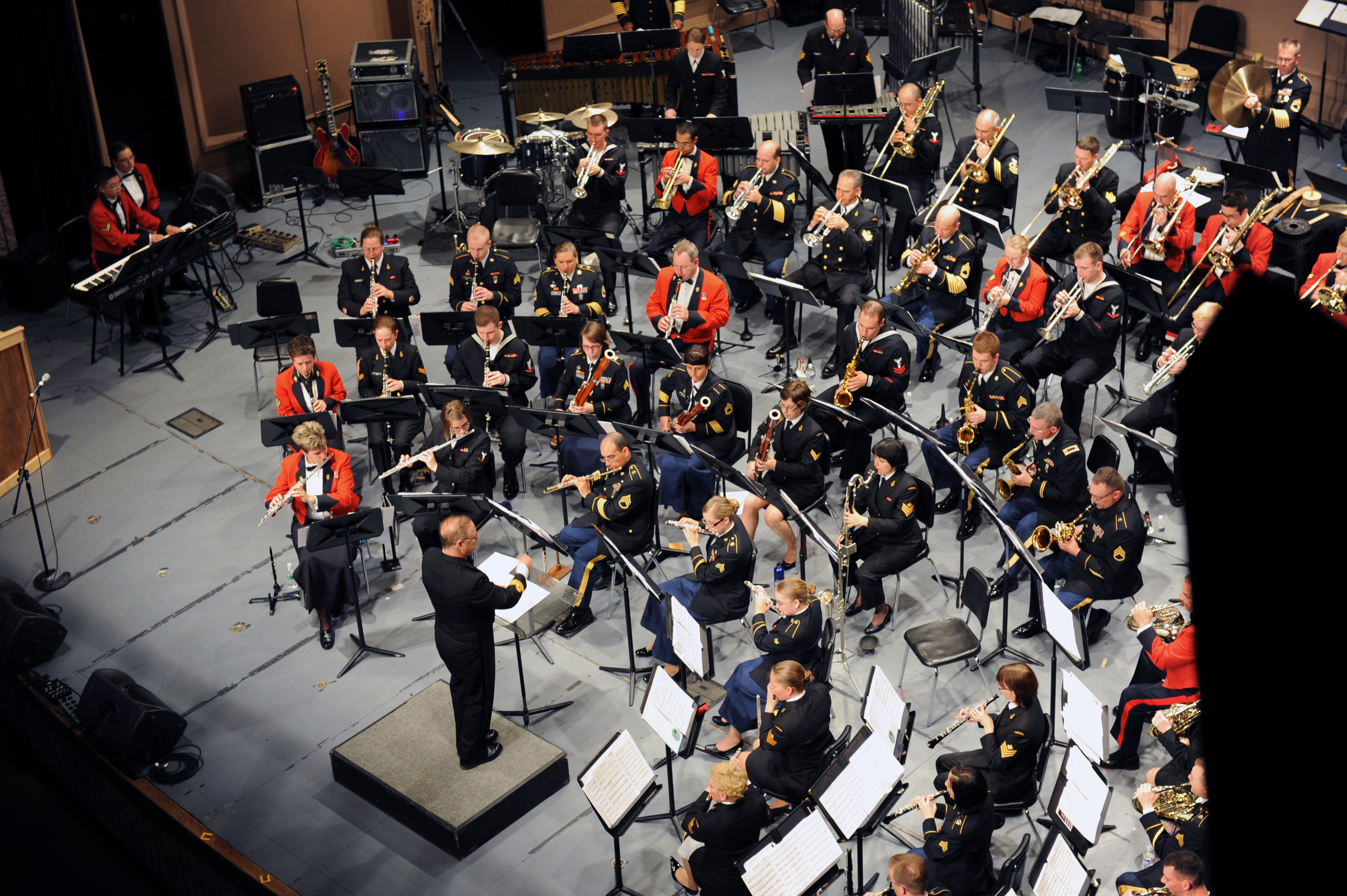 BREMERTON, Wash. (June 26, 2011) U.S. Navy Band Northwest performs at the 20th annual International Military Band Concert at the Bremerton Performing Arts Center. U.S. Navy Band Northwest was accompanied by the Band of the 15th Field Regiment, Royal Canadian Artillery from British Columbia, The Naden Band of Maritime Forces Pacific, also from British Columbia, the 204th Army Reserve Band from Vancouver Washington, and the 56th Army Band from Joint Base Lewis-McChord Washington. This was the first time the concert was held in Kitsap County. (U.S. Navy photo by Mass Communication Specialist 2nd Class Nathan Lockwood/Released)